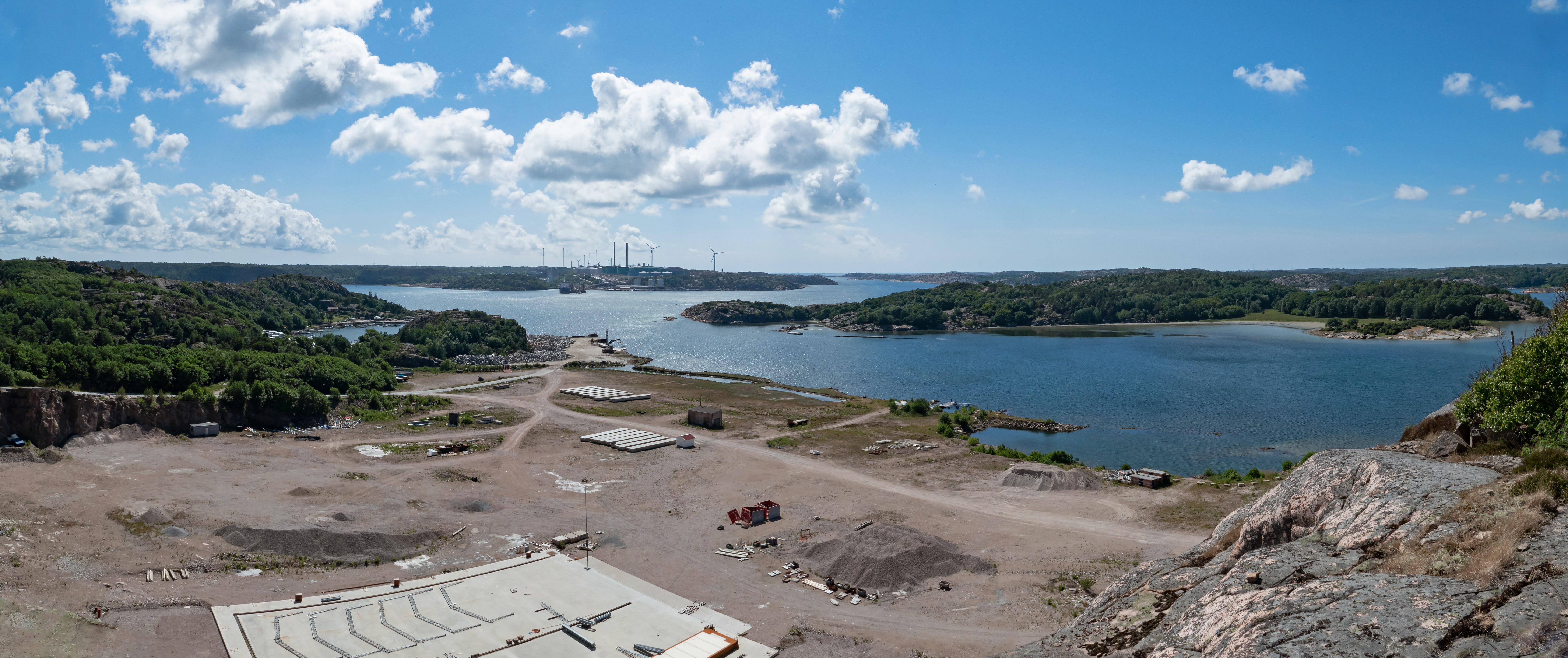 Part of the pit/flatlands and the quay of the old Rixö granite quarry. The quarry was operated by Skandinaviska Granit AB in 1875-1964 and most of the granite shipped from the quay was used to construct Autobahn in Germany. Only a small part of the quarry is still in operation and the flatland is mainly used for constructing concrete pontoon jetties. In the distance is Ryxö island, Preemraff Lysekil Oil Refinery and the inlet of Brofjorden. Photo taken from a ledge on Busberget overlooking the old granite quarry.